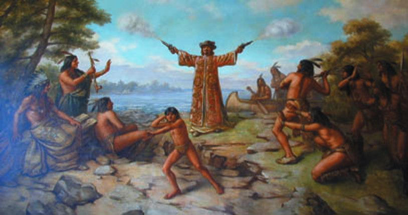 Jean Nicolet, landing at the Bay of Green Bay in 1634. Painted by Franz Edward Rohrbeck (1852-1919) in 1910 into the mural in the rotunda of the Brown County Courthouse, Green Bay, Wisconsin. It shows Nicolet wearing a Chinese damask tunic strewn with flowers and birds, and discharging two pistols into the air.